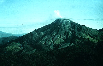 Southwest slopes of Bagana volcano on Bougainville, Papua New Guinea